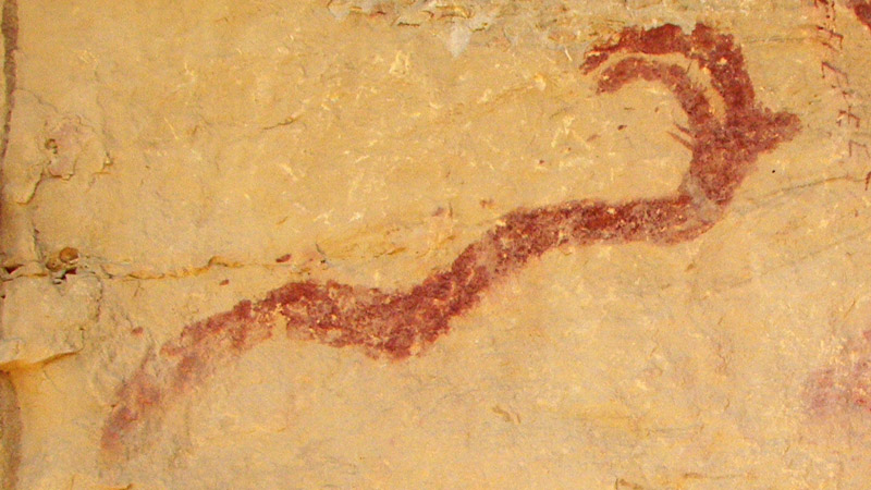 Horned Serpent in a Barrier Canyon Style Petroglyph, Western San Rafael Swell region of Utah, USA.